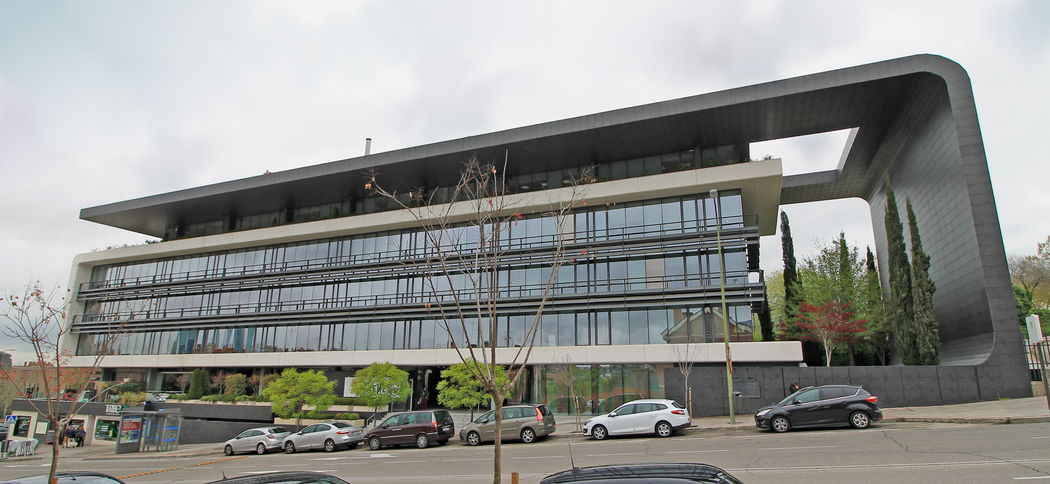 Façade of Monteolmo Building in Madrid (Spain). It is home to Heineken offices in Spain.